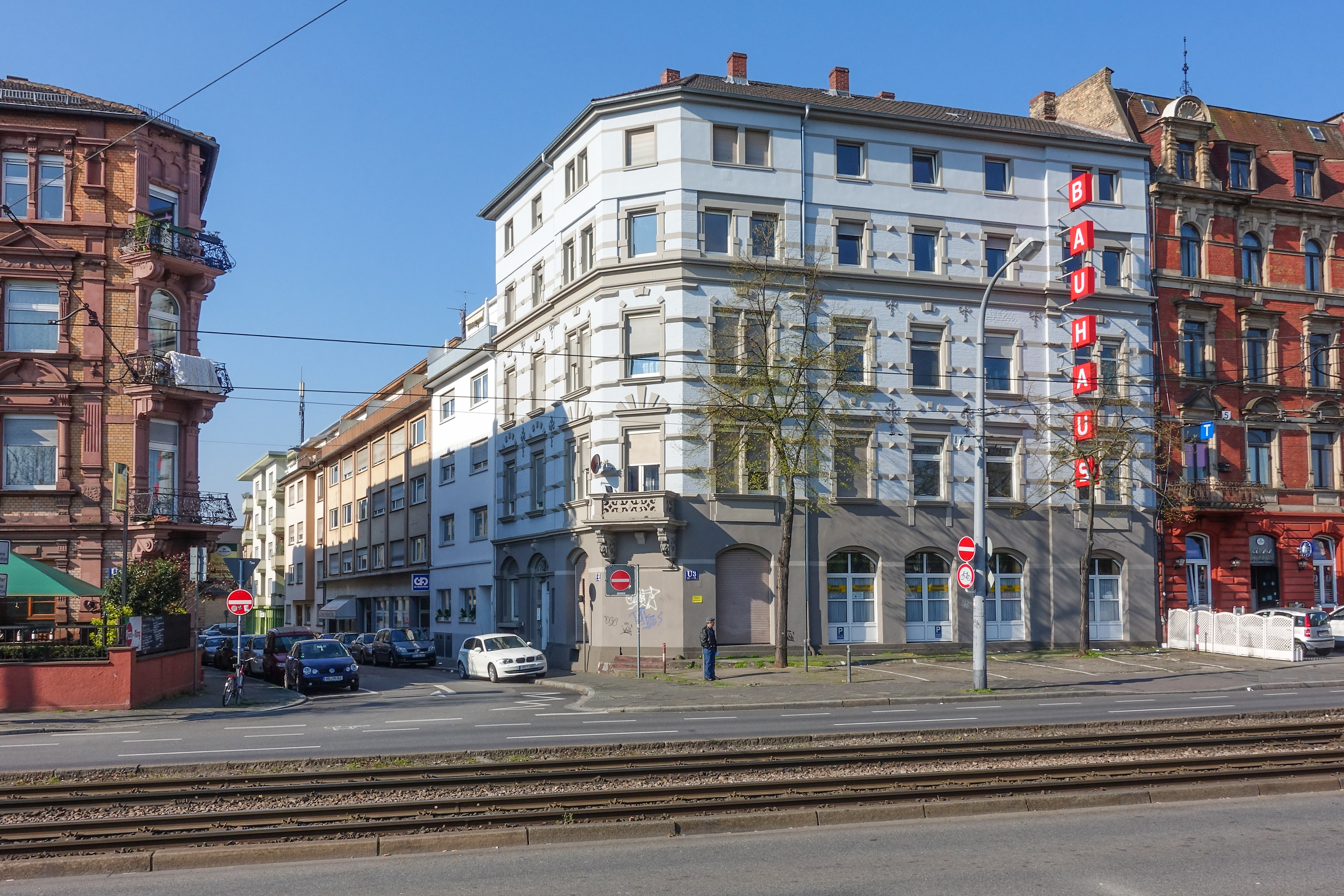 Building complex in Mannheim, square U 3. Here the first DIY superstore (Bauhaus) opened in 1960 in Germany.